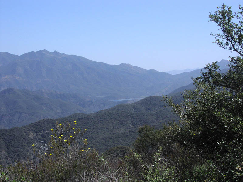 View into the Los Padres National Forest; photo by Antandrus (April 2002) Jameson Reservoir is center: to the right are the Santa Ynez Mountains, to the left the Los Padres backcountry and Old Man Mountain: in the far distance is 7510-foot Reyes Peak.